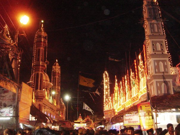 Festival Ganduri at karaikal